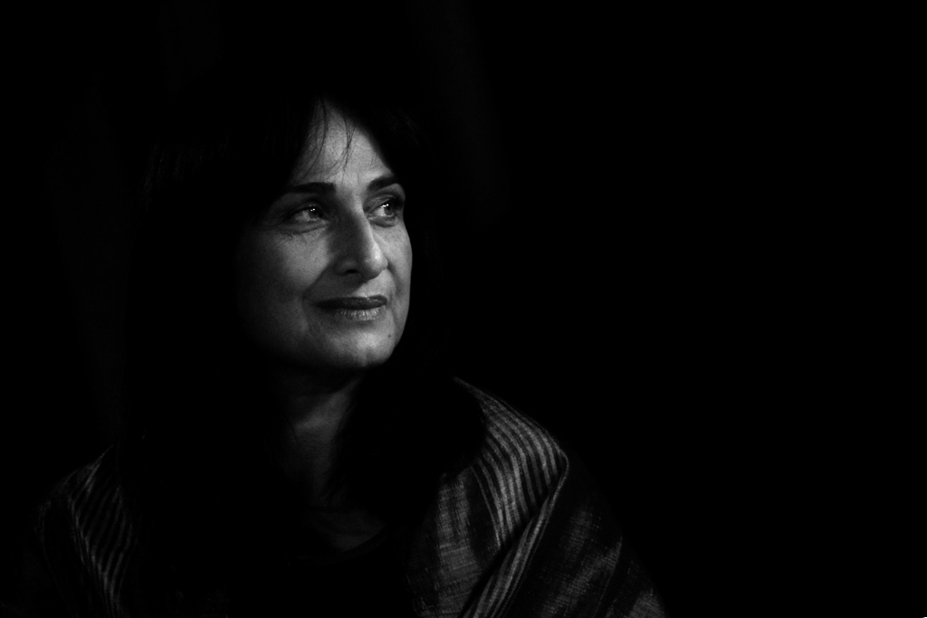 SUSAN TASLIMI during her BBC Persian TV interview